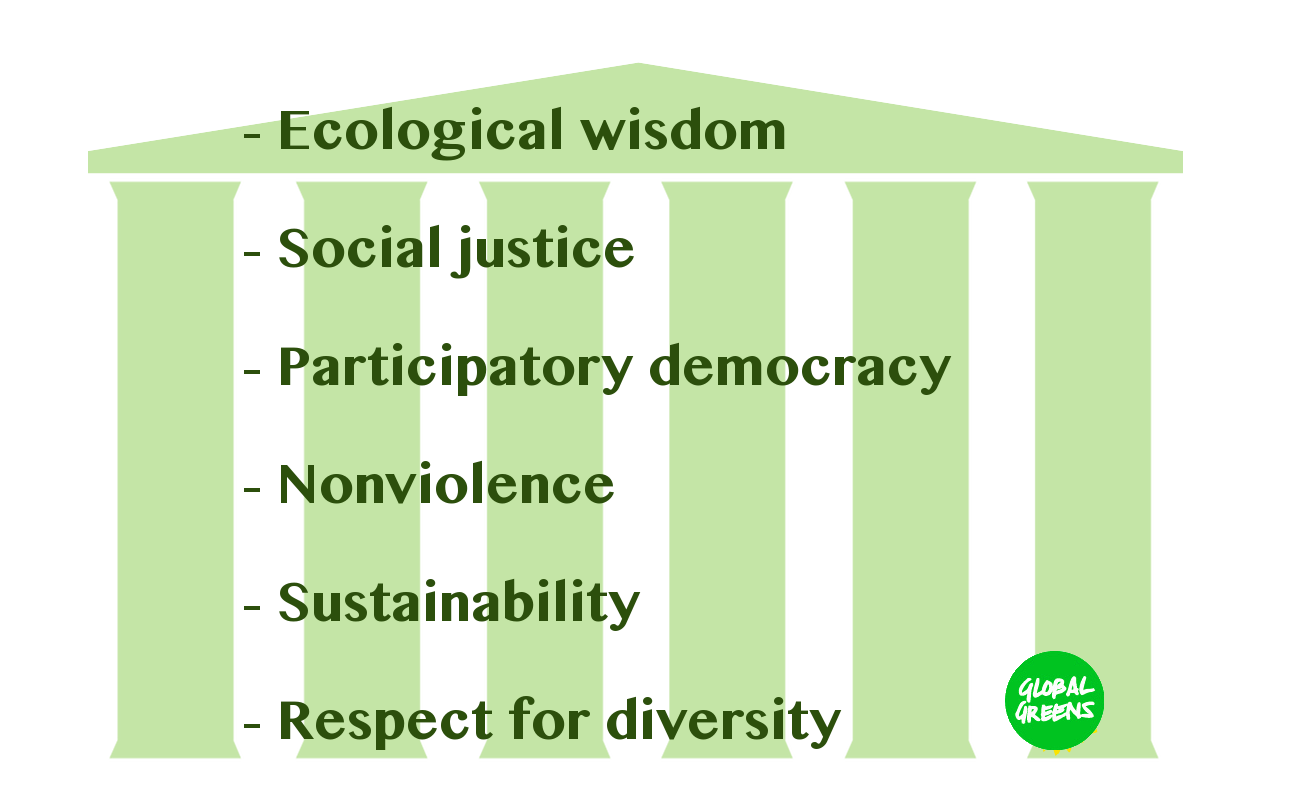 The 6 pillars of the Greens as confirmed in Camberra